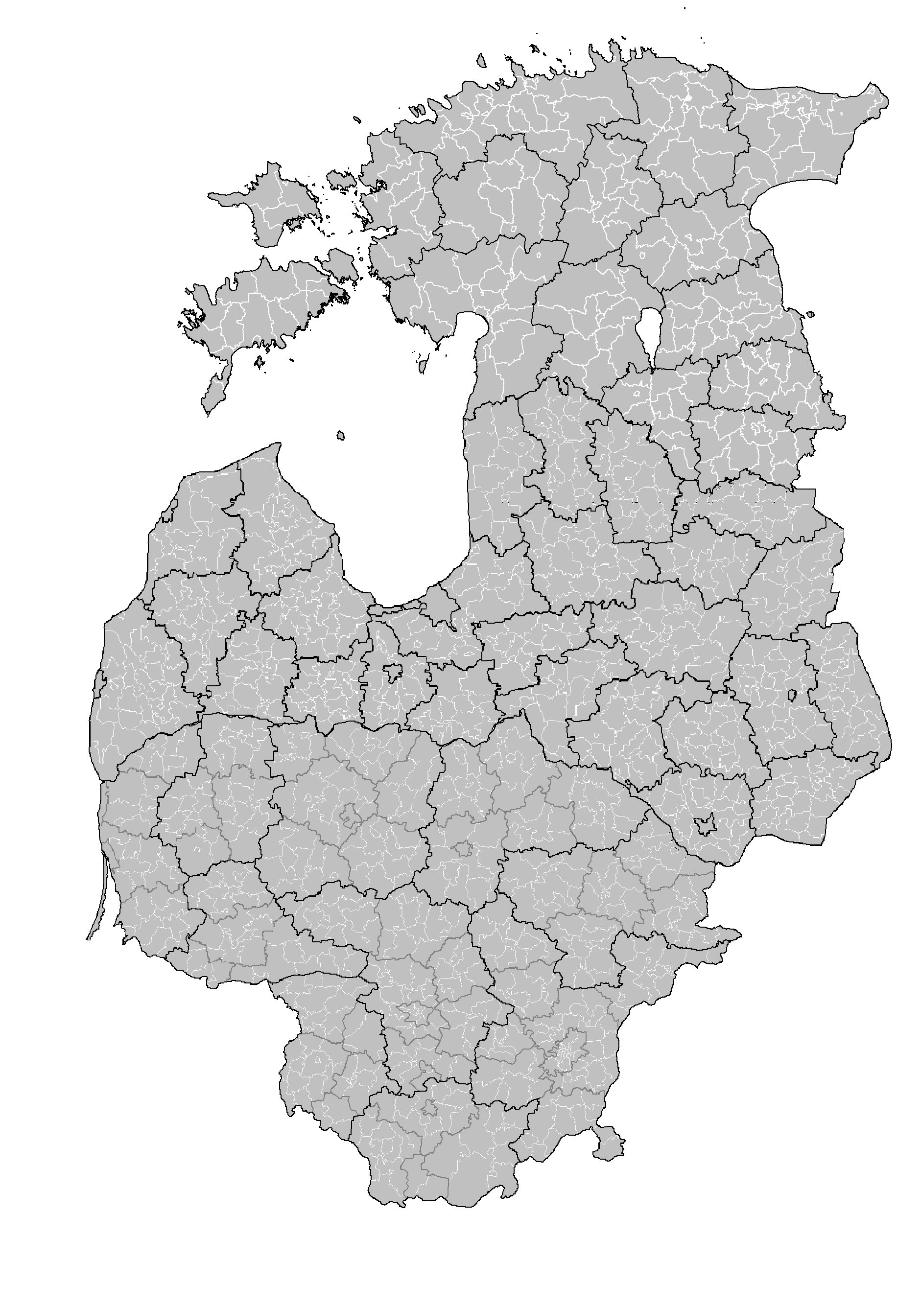 Municipalities of baltic states.